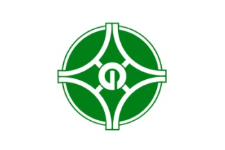 Flag of Toyono Osaka